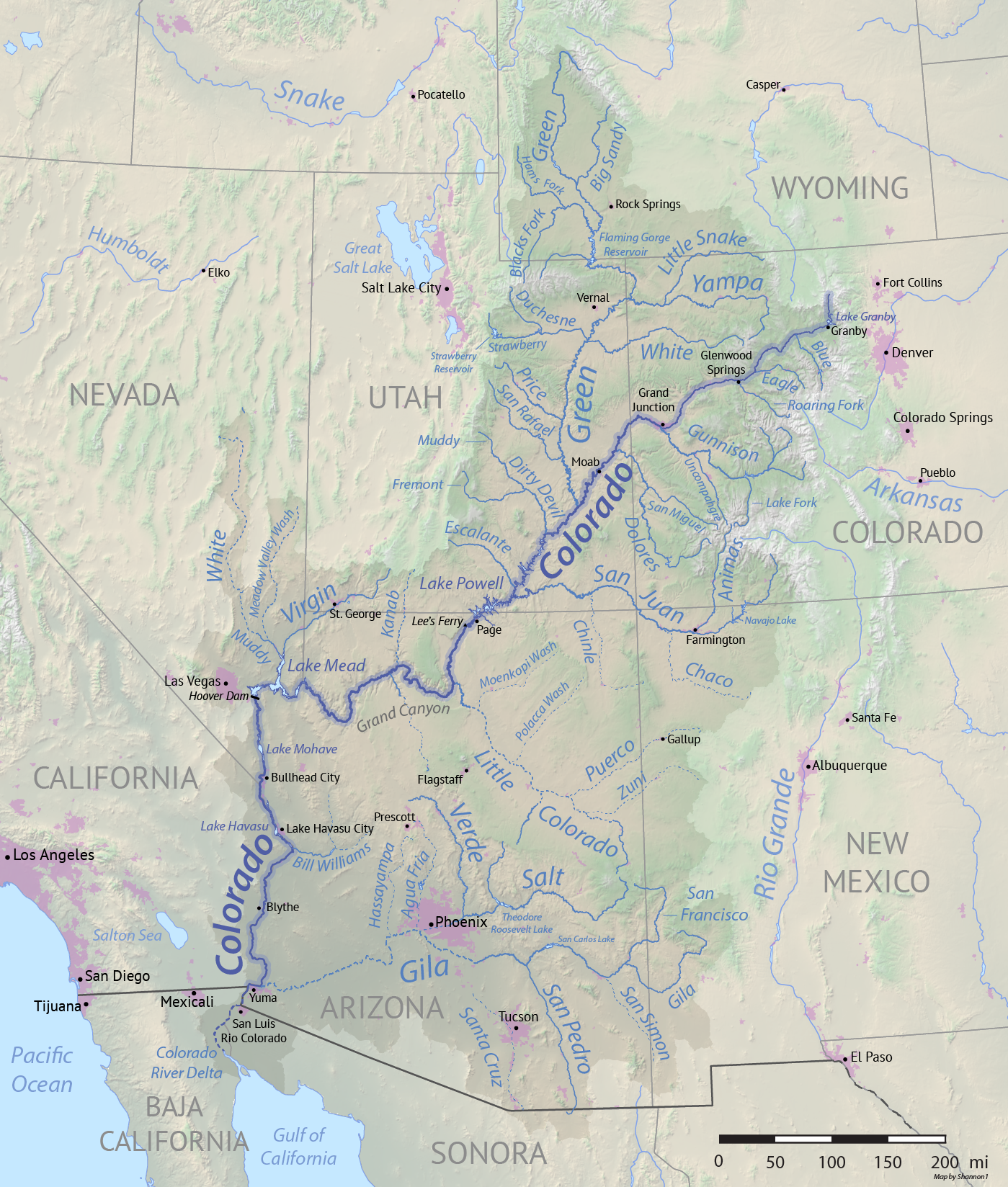 Map of the Colorado River drainage basin, created using USGS data. Intended to replace older map